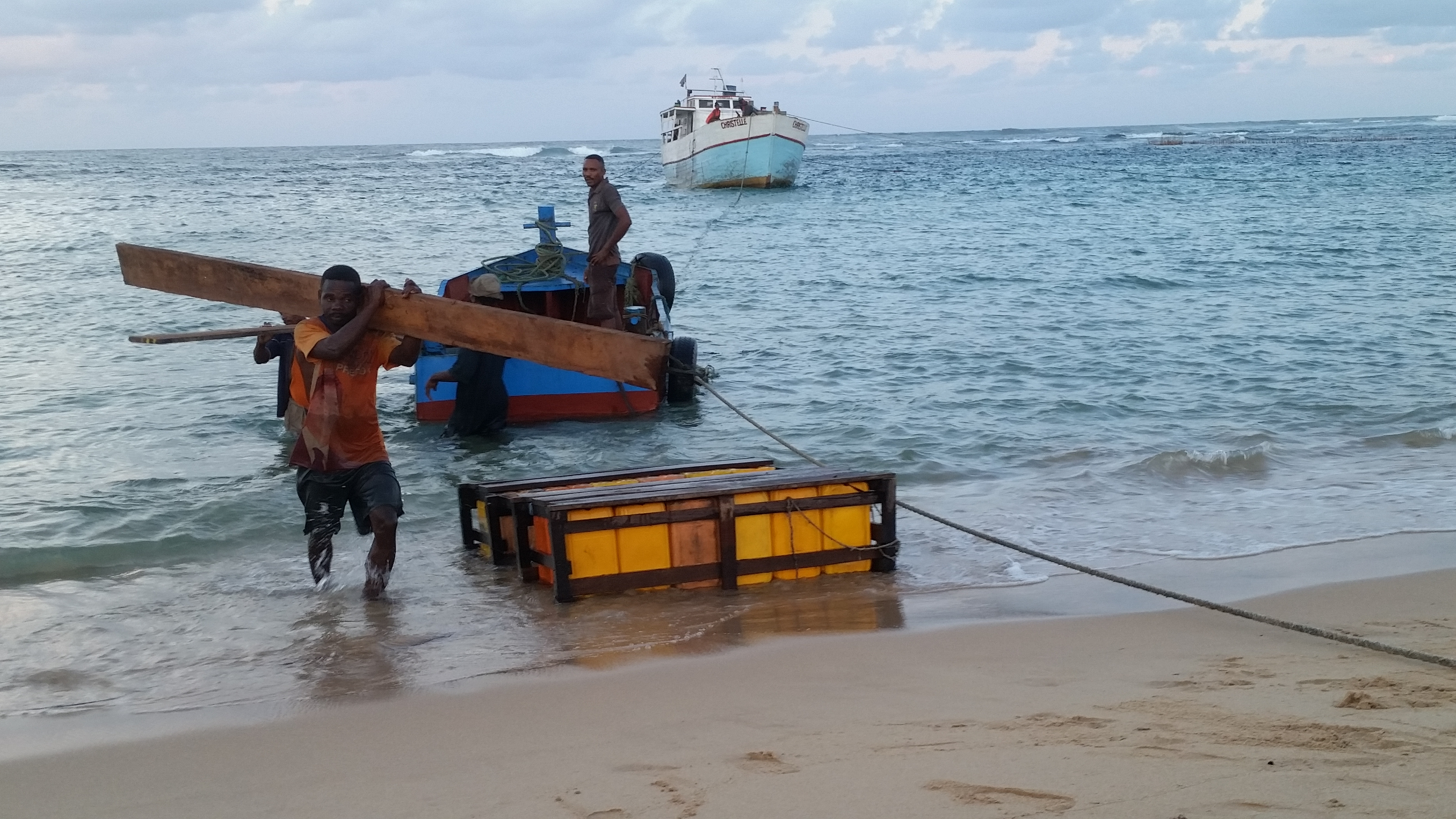 Dockers unloading wood from a boat in Ankoalabe's bay, Antalaha, Madagascar This is an image of "African people at work" from Madagascar